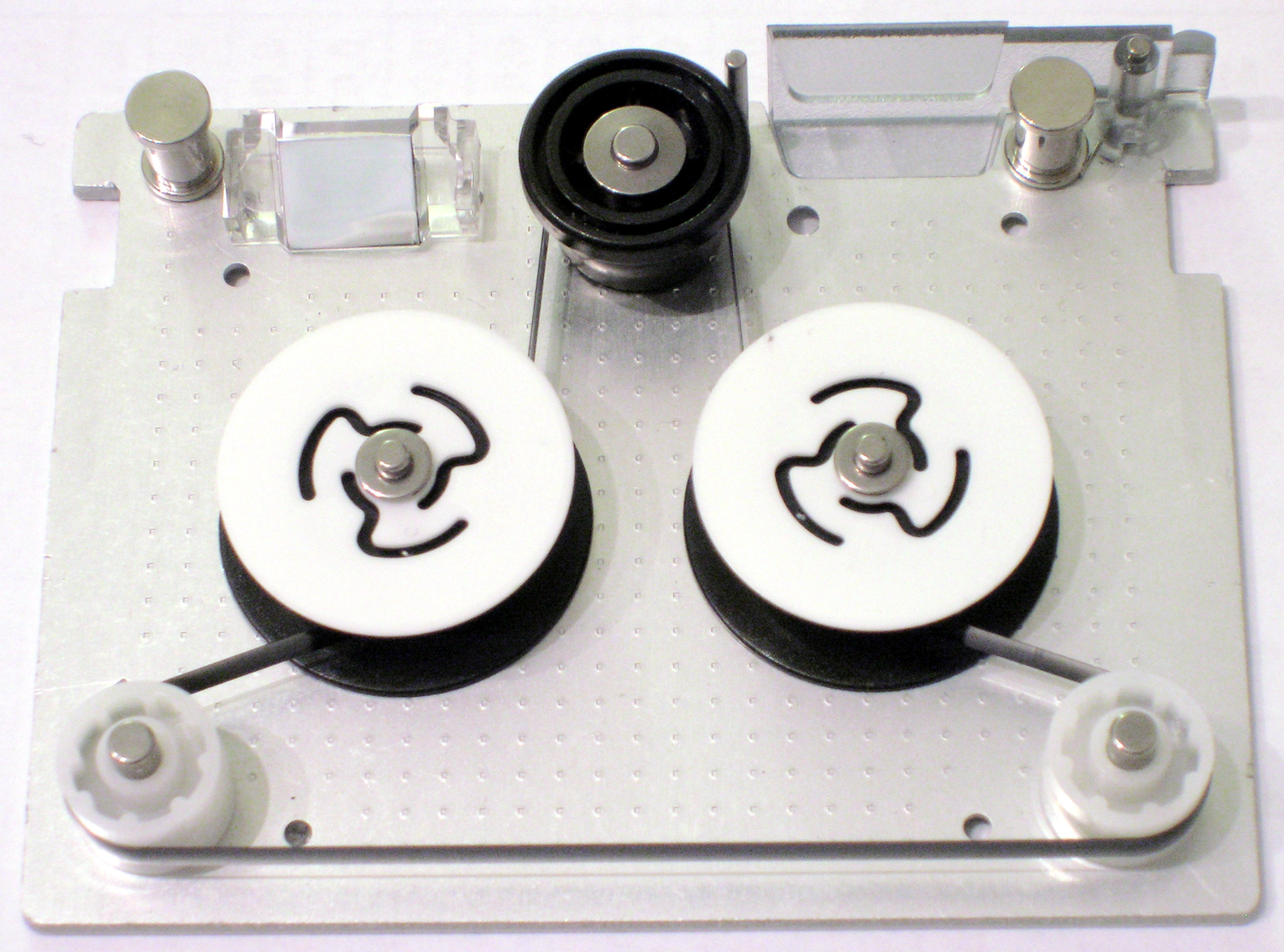 QIC-Tape; opend without tape